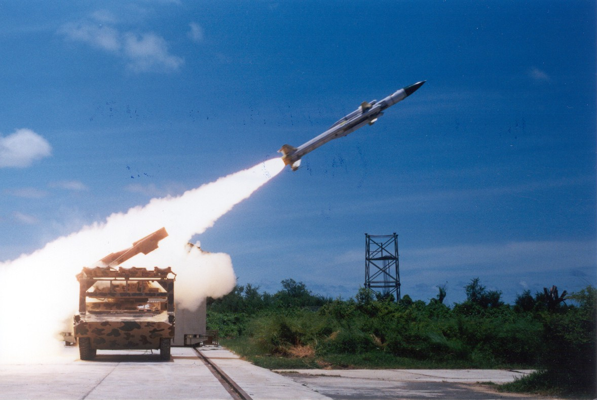 Test firing of the Akash missile. A medium-range surface-to-air missile. Operating in conjunction with the Rajendra radar, it can intercept targets up to 30 km range and 18 km altitude. Powered by a solid-fueled booster and a Ramjet engine, Akash can reach Mach 2.5 speed.